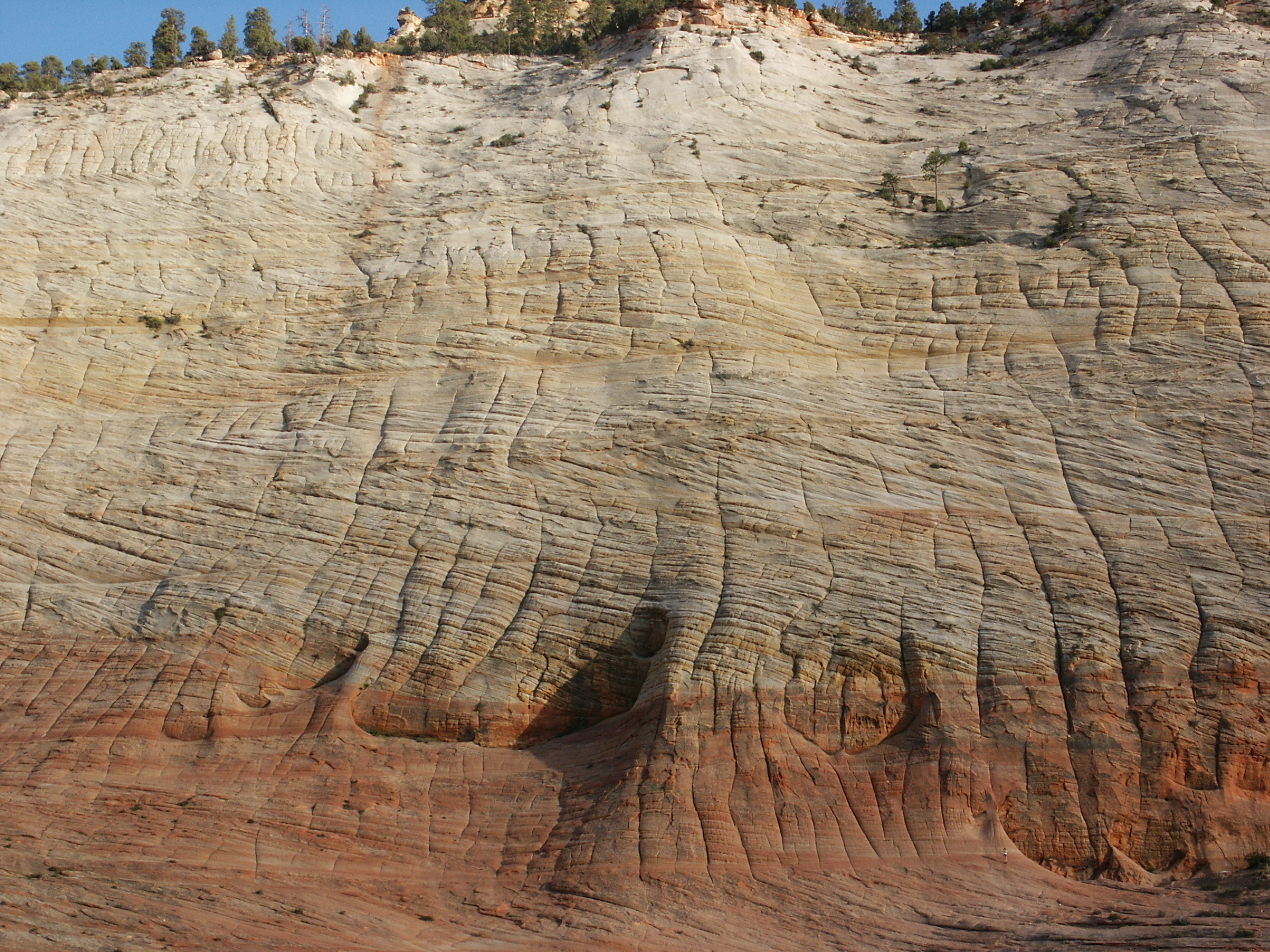 Large tabular cross-beds in the Navajo Sandstone (Jurassic). Exposure is in the Checkerboard Mesa area within Zion National Park. Person for scale near the lower right corner of the image.